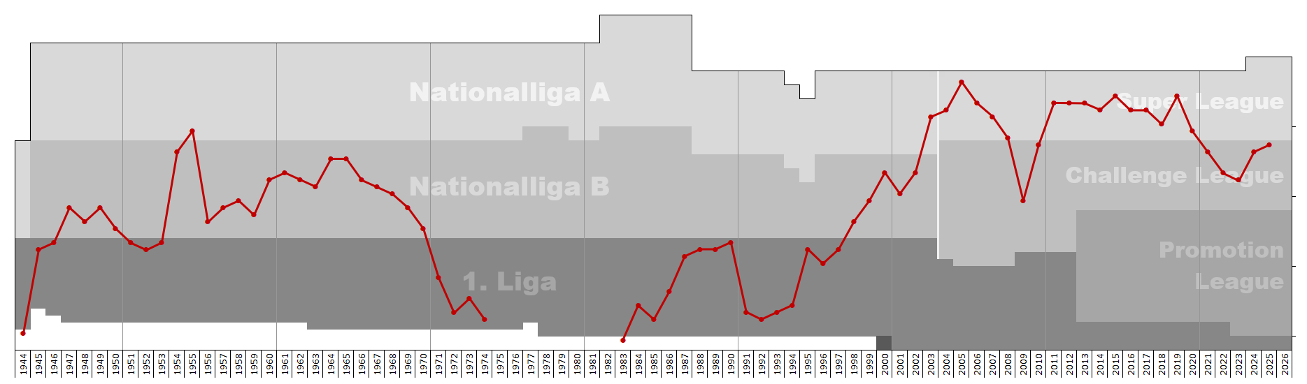 Chart of end-season table positions for FC Thun in the Swiss football league system. Data source: RSSSF